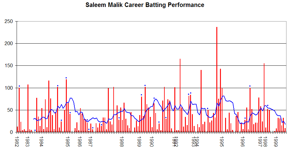 This graph details the Test Match performance of Saleem Malik. It was created by Raven4x4x. The red bars indicate the player's test match innings, while the blue line shows the average of the ten most recent innings at that point. Note that this average cannot be calculated for the first nine innings. The blue dots indicate innings in which Saleem finished not-out. This graph was generated with Microsoft Excel 2002, using data from Cricinfo and .au.